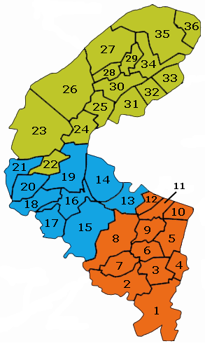 Administrative map 92